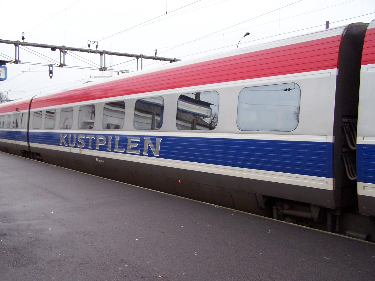 Kustpilen at the central station of Karlskrona.